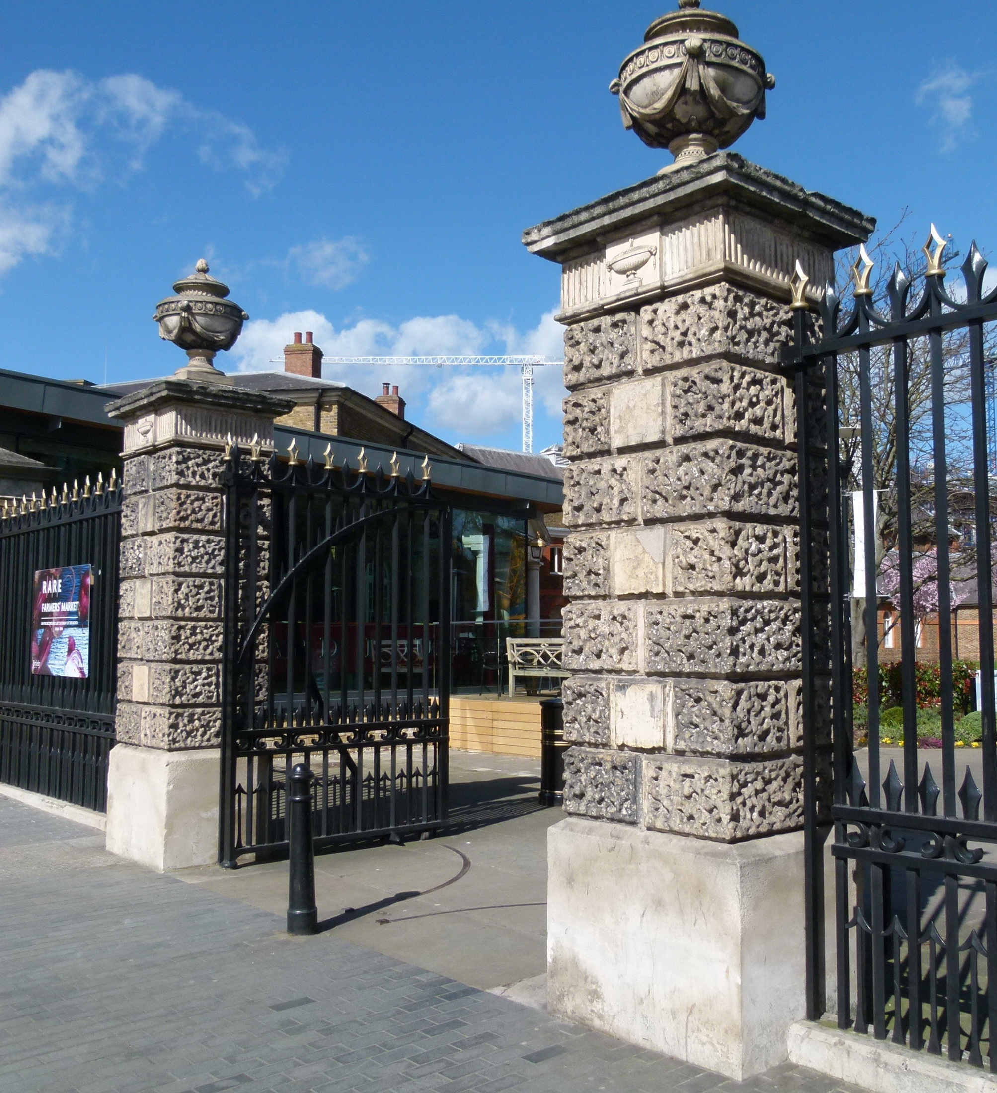 View from Beresford Street of the main gate at the Royal Arsenal in Woolwich, South East London, UK. The gate was rebuilt here in 1985–86, re-using twin stone piers with urns from the Paragon on the New Kent Road, built by Michael Searles in 1789–90. They replaced the Royal Arsenal Gatehouse as main entrance to the Arsenal, after the A206 road was diverted north of the gatehouse.